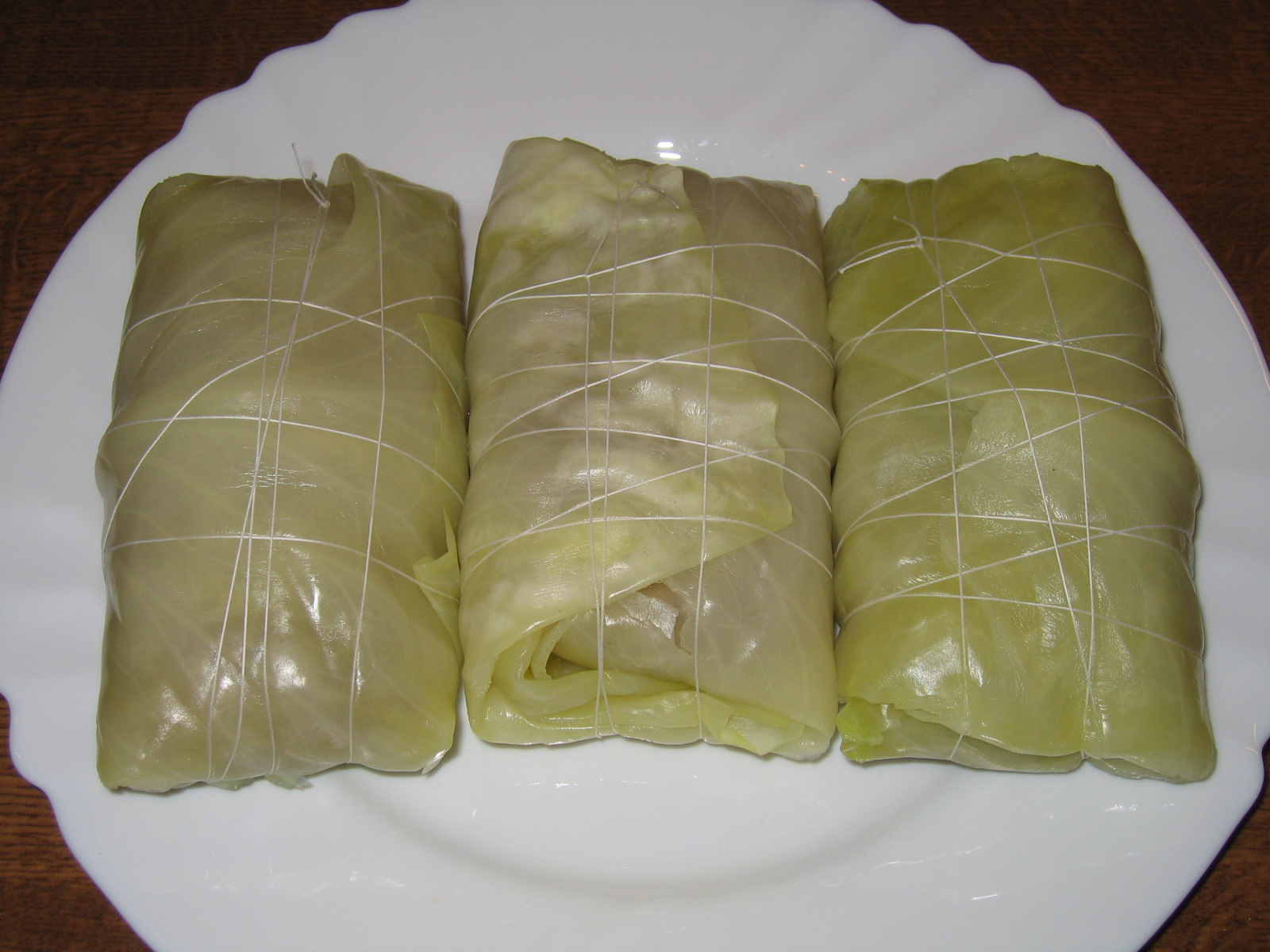 Cabbage rolls